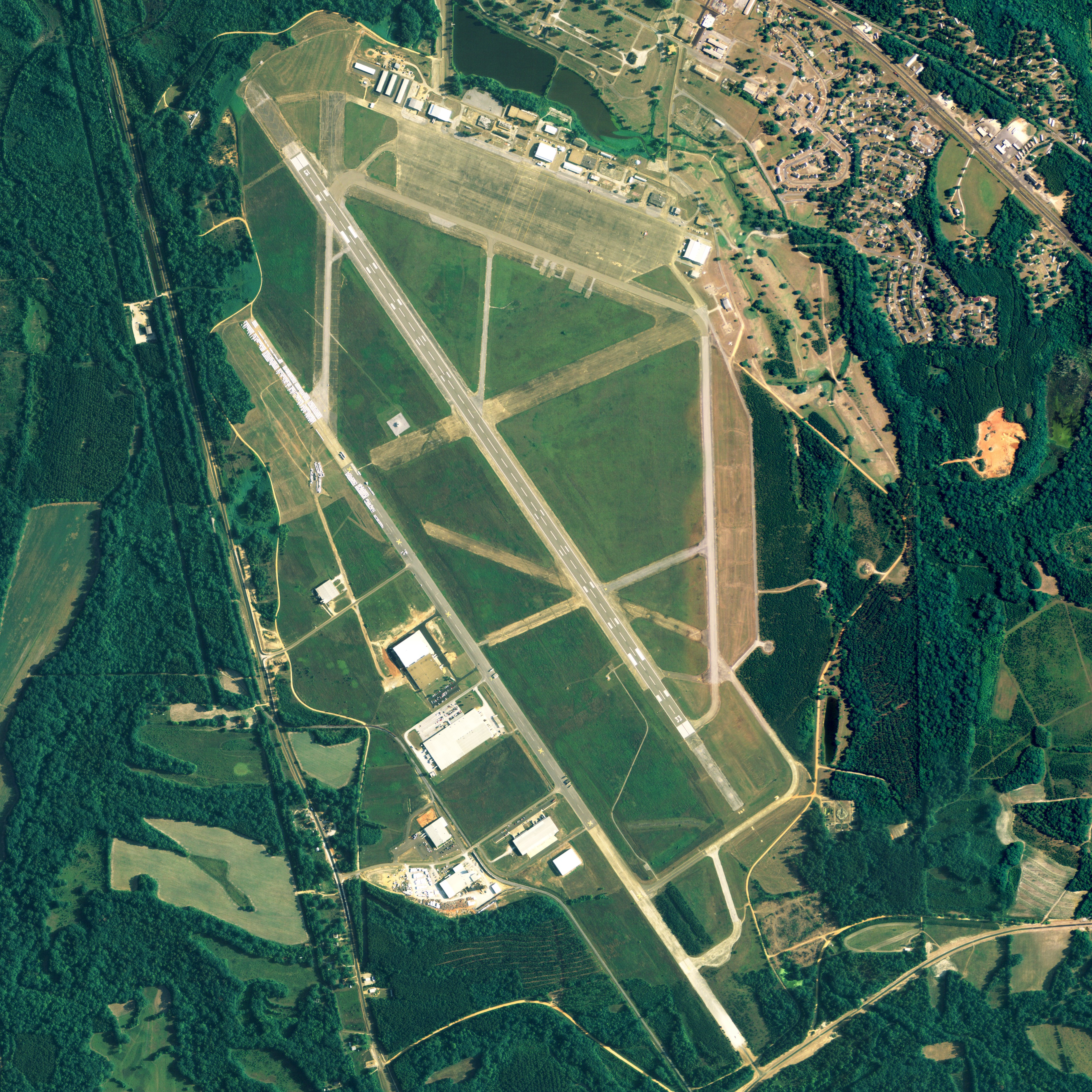 Aerial image of Craig Field, formerly Craig Air Force Base, an airport in Selma, Alabama, United States